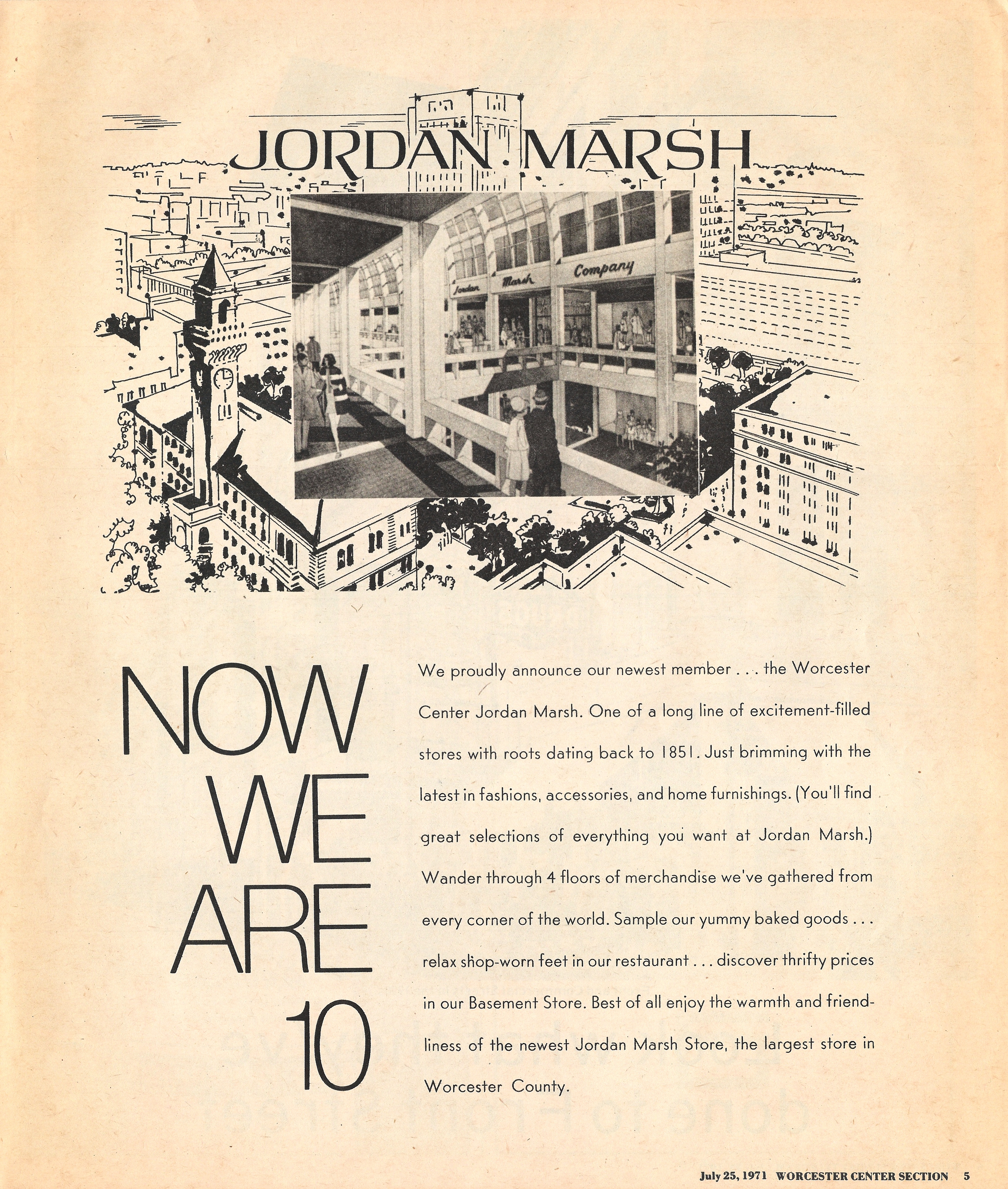 Jordan Marsh ad from the July 25, 1971 Worcester Sunday Telegram announcing the opening of their 10th store at the Worcester Center Galleria